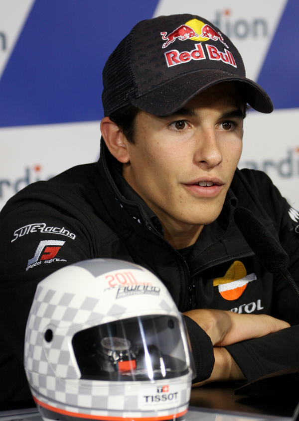 Marc Marquez 2011 Brno